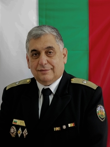 Boyan Kirilov Mednikarov